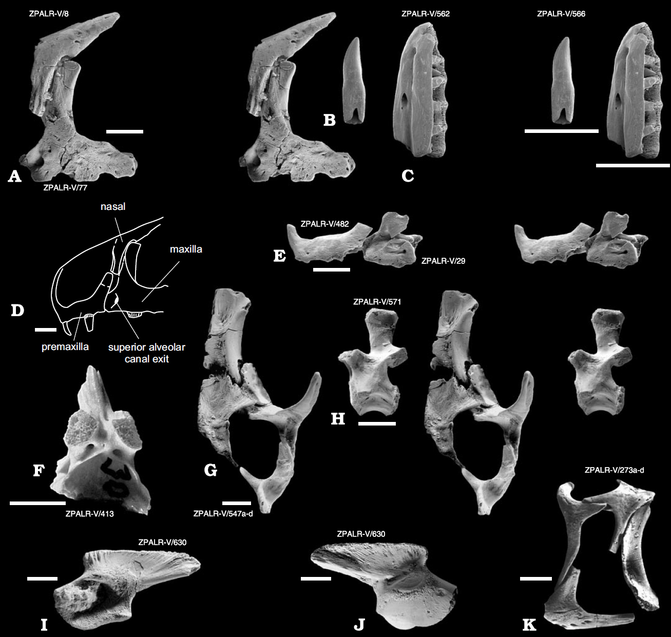 Osmolskina czatkoviensis gen. et sp. nov. A. The holotype left maxilla combined with the nasal. B. Isolated tooth. C. Right dentrary fragment. D. Re− construction of the snout region. E. Premaxilla combined with maxilla fragment. F. Parabasisphenoid. G. Cervical. H. Frontal, parietal, postfrontal, postorbital squamosal. I, J. Left ilium. K. Postorbital, jugal, squamosal, quadrate. A, E, H, K. Combined bones of different individuals. A, D, E, G, I, K. Left side view. B, C, J. Medial view. F, H. Ventral view. All, except D, SEM micrographs; A–C, E, G, H, stereopairs. Scale bars 5 mm.